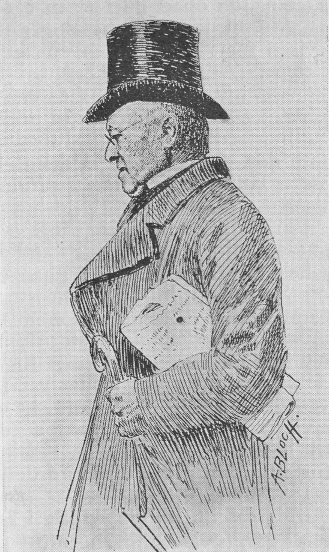 Drawing of Christian Friele by Andreas Bloch (1860–1917)